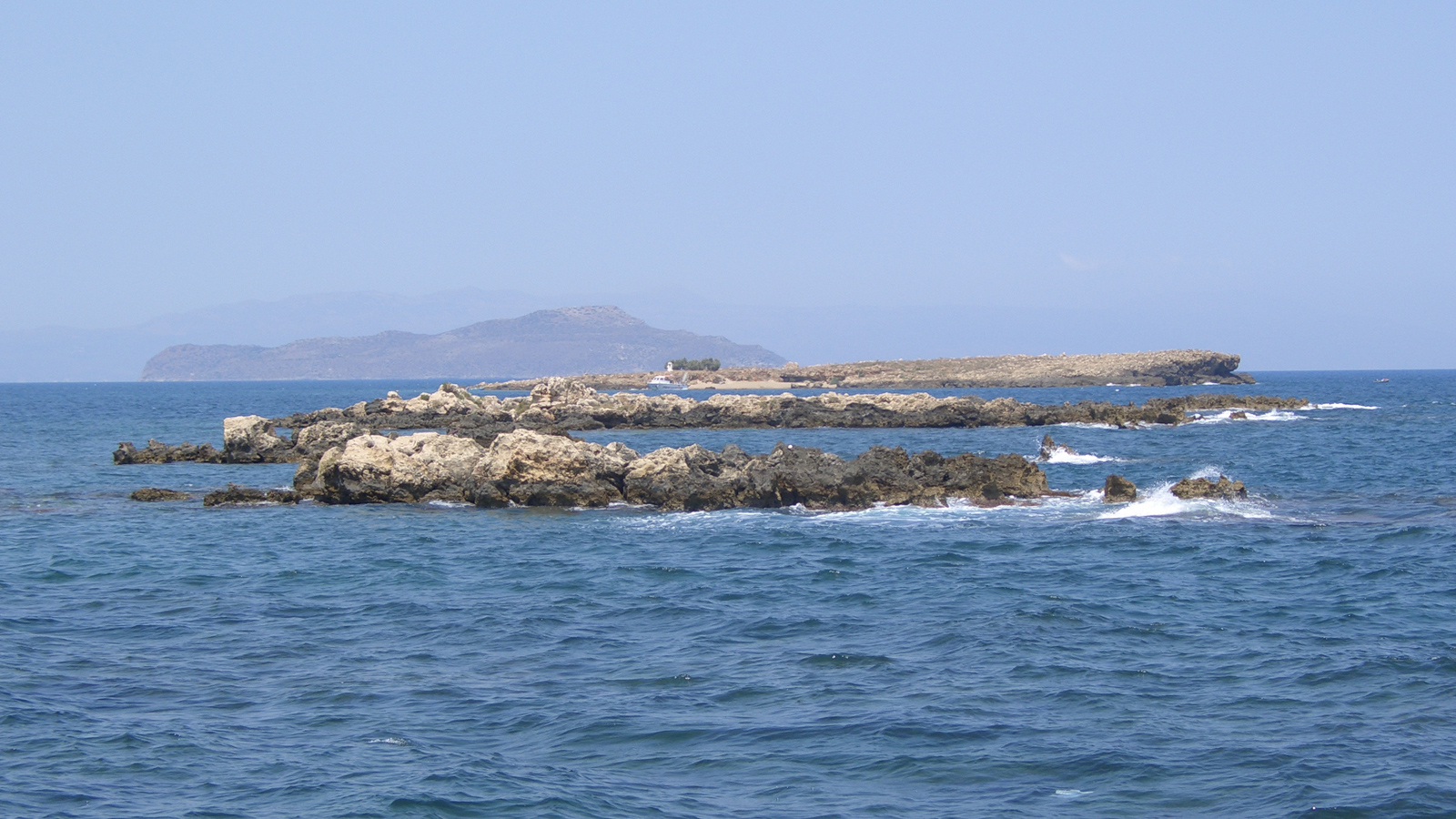 Two rocks, behind Lazaretta Island, Agii Theodori in the background, Chania, Crete, Greece